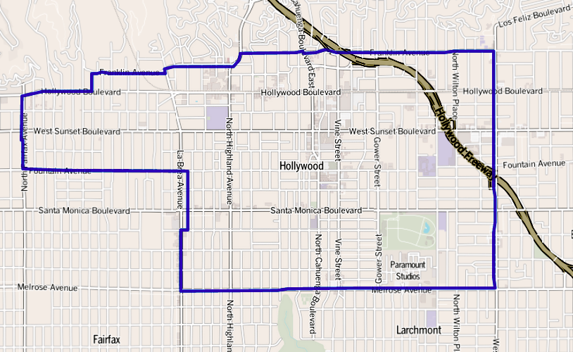 Map of the Hollywood district — in Los Angeles. as delineated by the Los Angeles Times Other information Boundary map as drawn by the Los Angeles Times on a CC-by-SA background. Note at bottom right of map on the L.A. Times website noted above says "CC-by-SA" (which gives permission to use the map). There is a link there to which explains the meaning thereof. The base map is credited to The Times spells all this out at